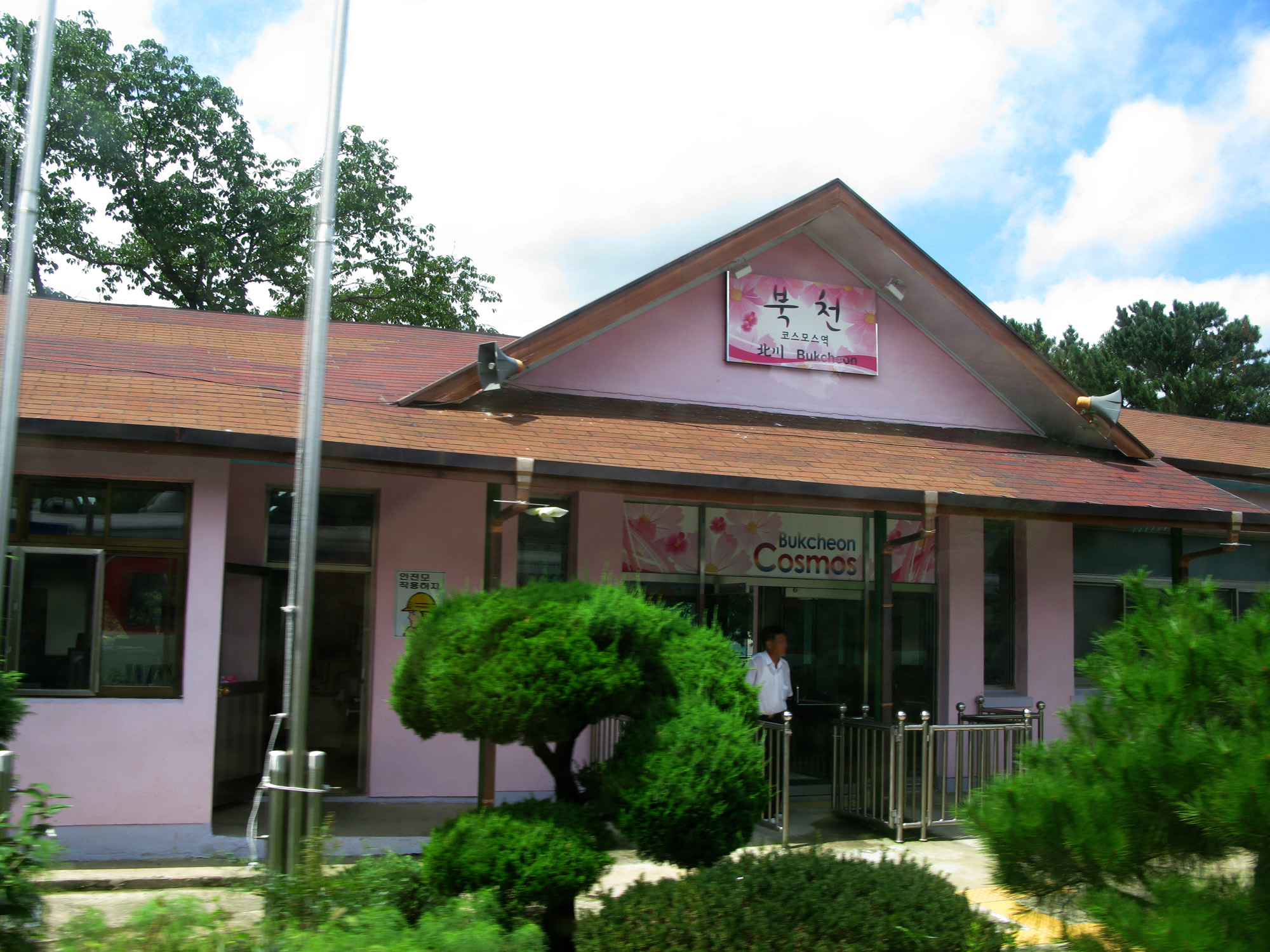 Gyeongjeon Line Bukcheon Station